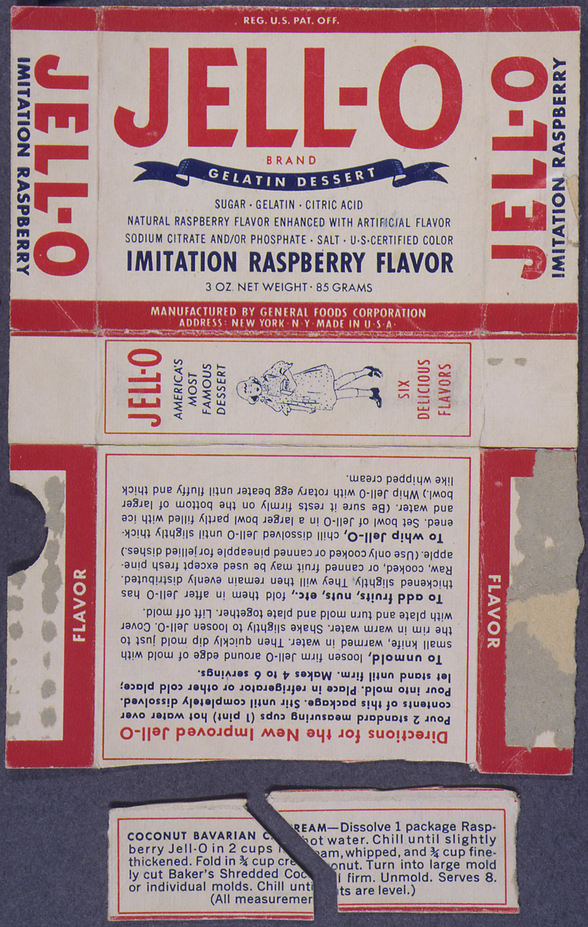 General notes: The trial transcript shows that the prosecution introduced this facsimile Jell-O box to represent the recognition signal supposedly devised by Julius Rosenberg for David and Ruth Greenglass and Harry Gold. According to trial testimony of David and Ruth Greenglass, after dinner at the Rosenbergs' apartment in January 1945, Julius went into the kitchen with Ruth and Ethel, took an empty Jell-O box and cut a side panel into two irregular parts. He gave one piece to Ruth, saying that the person contacting her and David in Albuquerque would identify themselves by presenting the other half. In cross- examining David Greenglass, defense attorney Bloch challenged his story by asking the flavor of the real Jell-O box. David did not remember. Roy Cohn is credited with selecting raspberry for the facsimile.